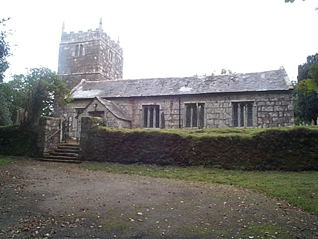 St Bartholomew, Warleggan The church is dedicated to St Bartholomew. The church was one of the few on Bodmin Moor to have a spire, until in 1818 when it was struck by lightning. Until a road was built in 1953 linking it to the A38, it had the reputation of being one of the most remote areas of Cornwall. The priest from 1931 until his death in 1953 was Frederick Densham. Frederick, to say the least, was an eccentric: painting the church and vicarage in garish colours. All his parishioners eventually shunned the church and poor old Frederick preached his sermon's to "cut out cardboard figures" seated around the church. In 1953, many years after he had preached to his last “live” congregation, Rev Mr Densham’'s body was found in a crumpled heap at the bottom of the stairs at the rectory. A book by Daphne du Maurier was based on this story.